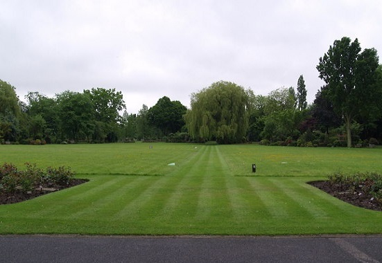 Golders Green Crematorium, lawn for scattering ashes